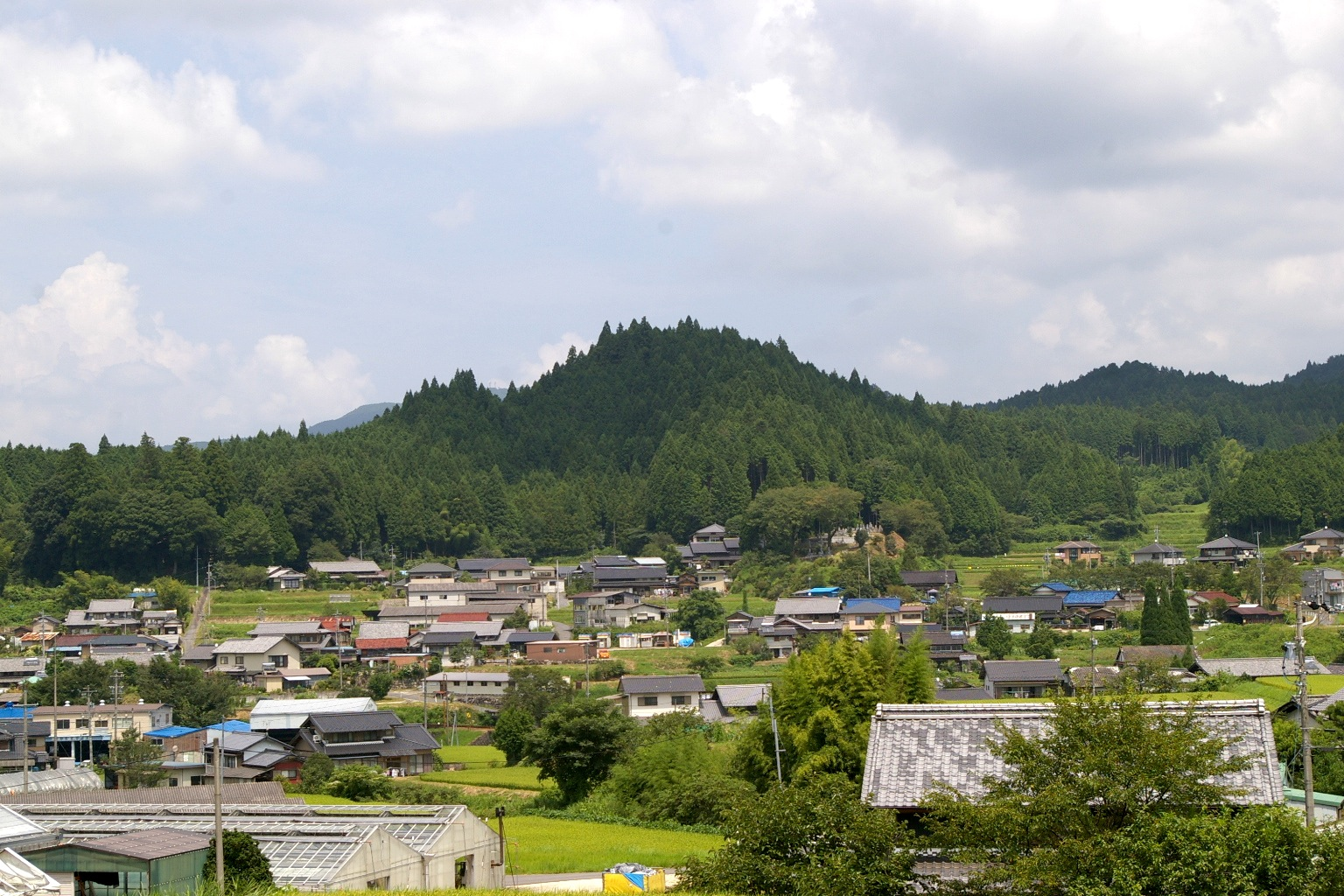 Agi Castle (Agi, Nakatsugawa City, Gifu Pref., Japan)